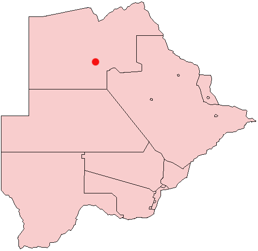 Maun, Botswana Location Map; created with the GIMP. Made by User:Acntx.